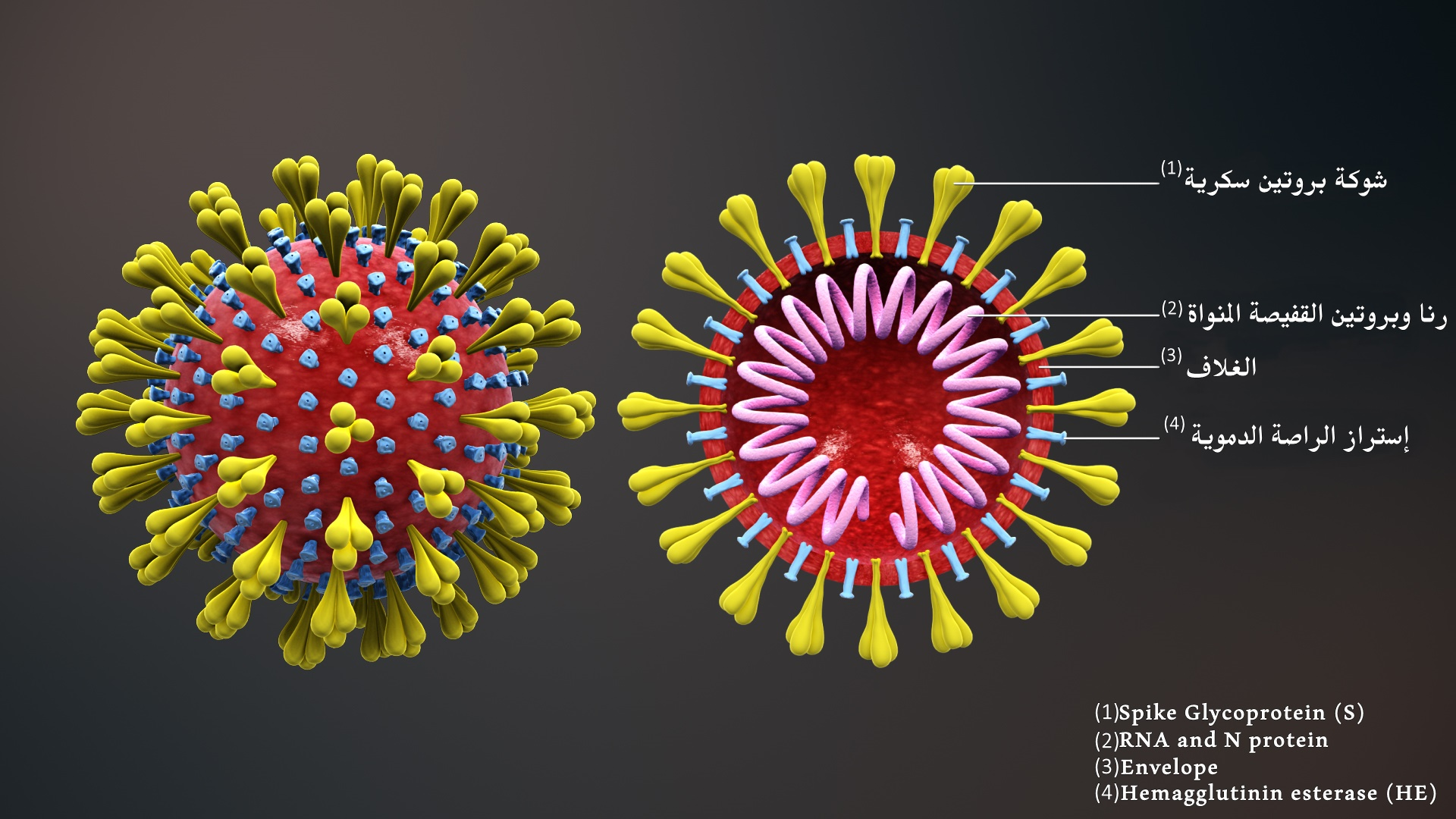 Images combined from a 3D medical animation, depicting the shape of coronavirus as well as the cross-sectional view. Image shows the major elements including the Spike S protein, HE protein, viral envelope, and helical RNA